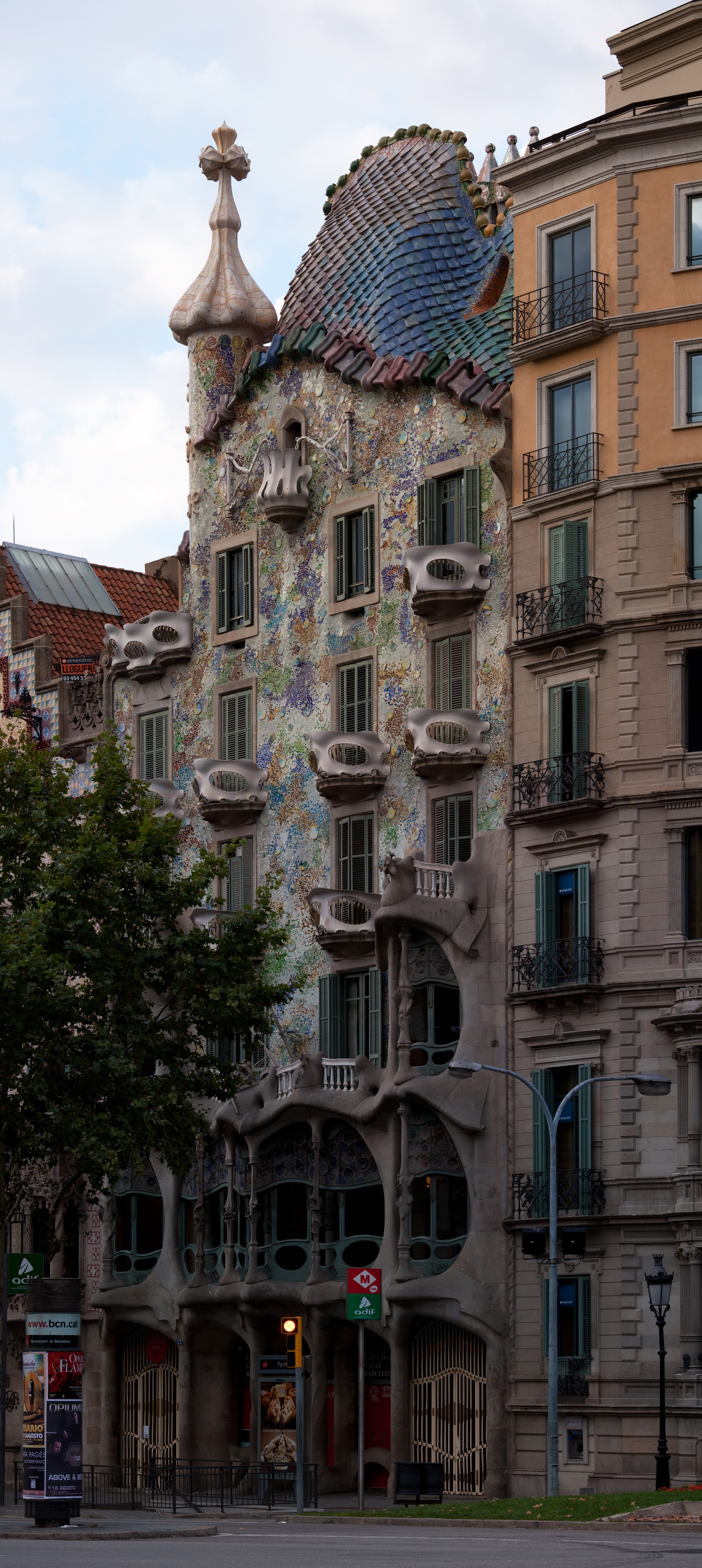 The Casa Batlló is one of the famous Art Nouveau buildings in the Eixample district of Barcelona, Spain. It was restored by the architect Antoni Gaudí at the beginning of the twentieth century and is located on the Passeig de Gràcia as part of the Illa de la Discòrdia.